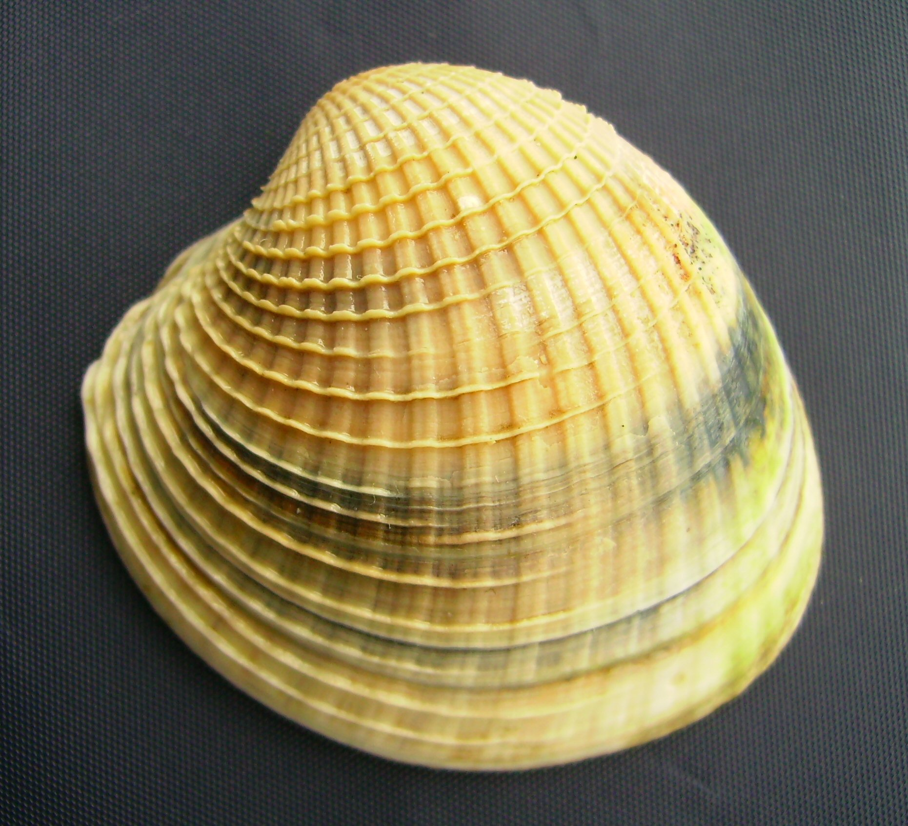 Austrovenus stutchburyi (tuangi cockle), from Auckland, New Zealand. This work has been released into the public domain by its author, Graham Bould. This applies worldwide.In some countries this may not be legally possible; if so:Graham Bould grants anyone the right to use this work for any purpose, without any conditions, unless such conditions are required by law.